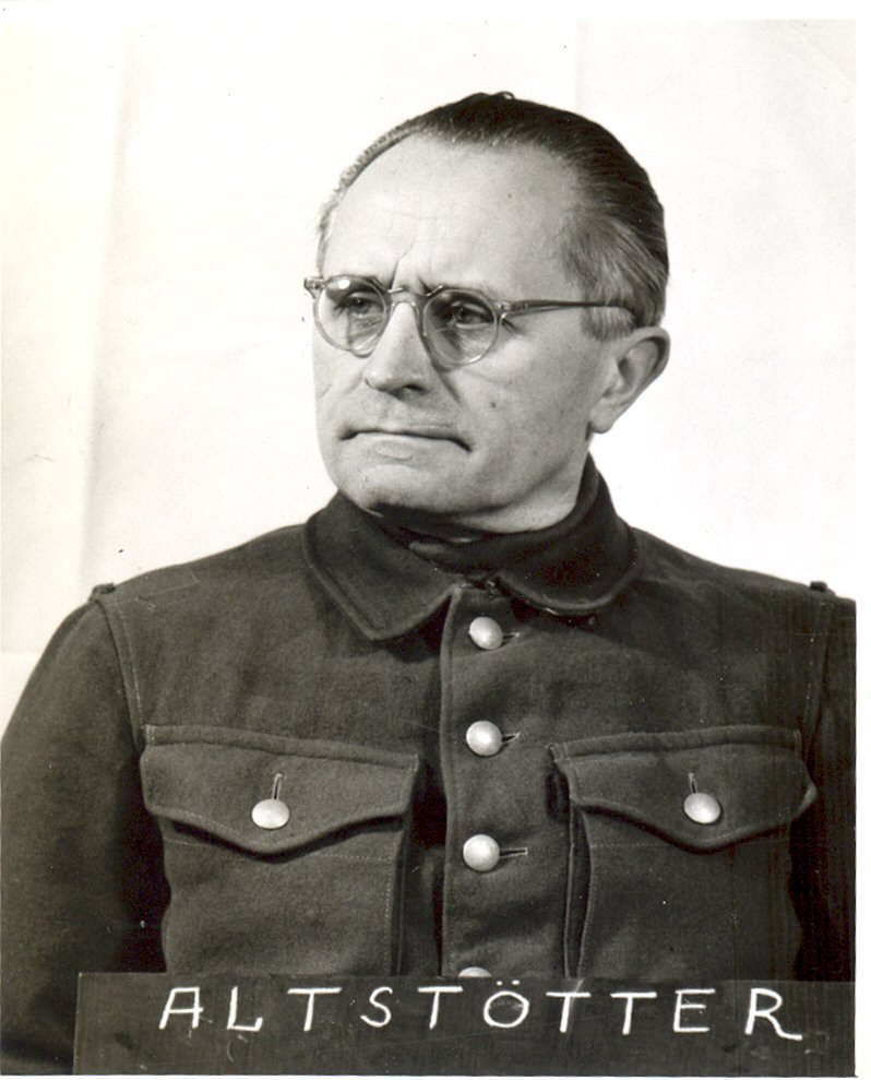 Josef Altstötter (1892-1979) was a high ranking official (Ministerialdirektor) in the German Ministry of Justice (Reichsjustizministerium) during the Second World War. This photograph of Altstötter (probably as a defendant during the Nurmeberg Trials No. III - the Justice Case) was taken by US Army photographers on behalf of the Office of the U.S. Chief of Counsel for the Prosecution of Axis Criminality (OUSCCPAC, May 1945 - Oct. 1946) or its successor organization, the Office of Chief of Counsel for War Crimes (OCCWC, Oct. 1946 - June 1949).